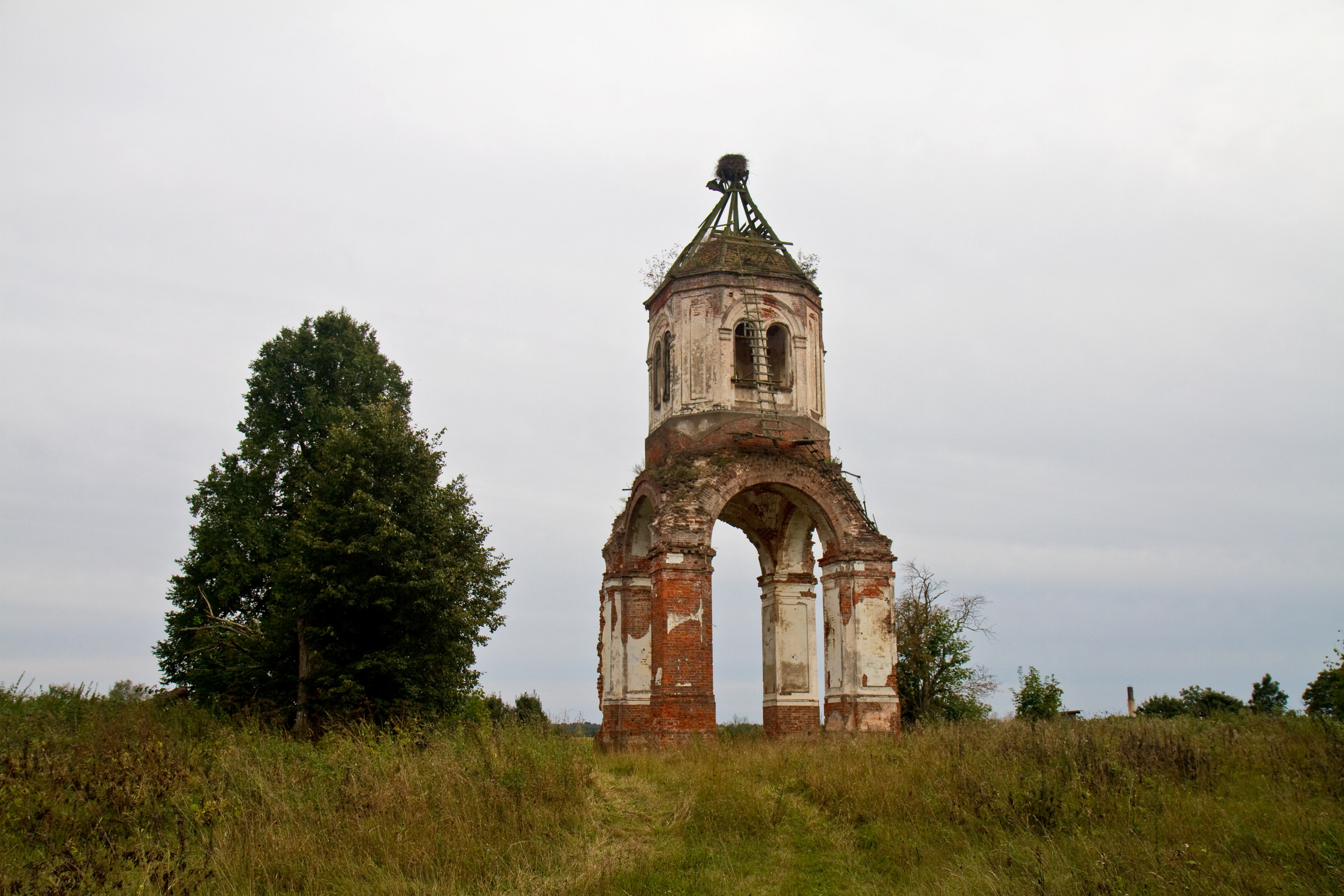 Church of St. Euphrosyne of Polatsk. Rosica village, Vierchniadźvinsk district, Viciebsk province, Belarus.